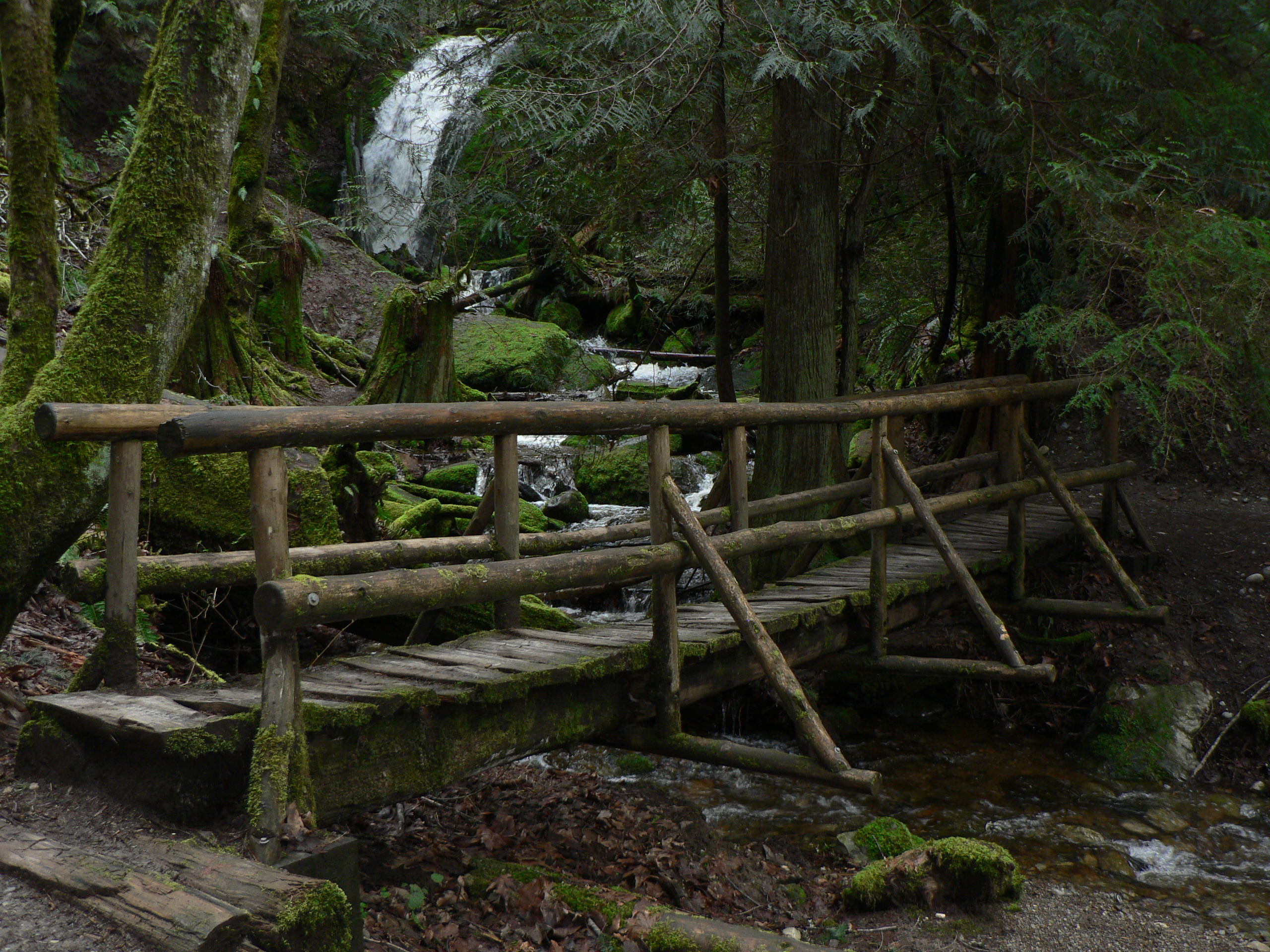 Coal Creek Falls foot bridge with falls in background, Thuja plicata, Tsuga heterophylla